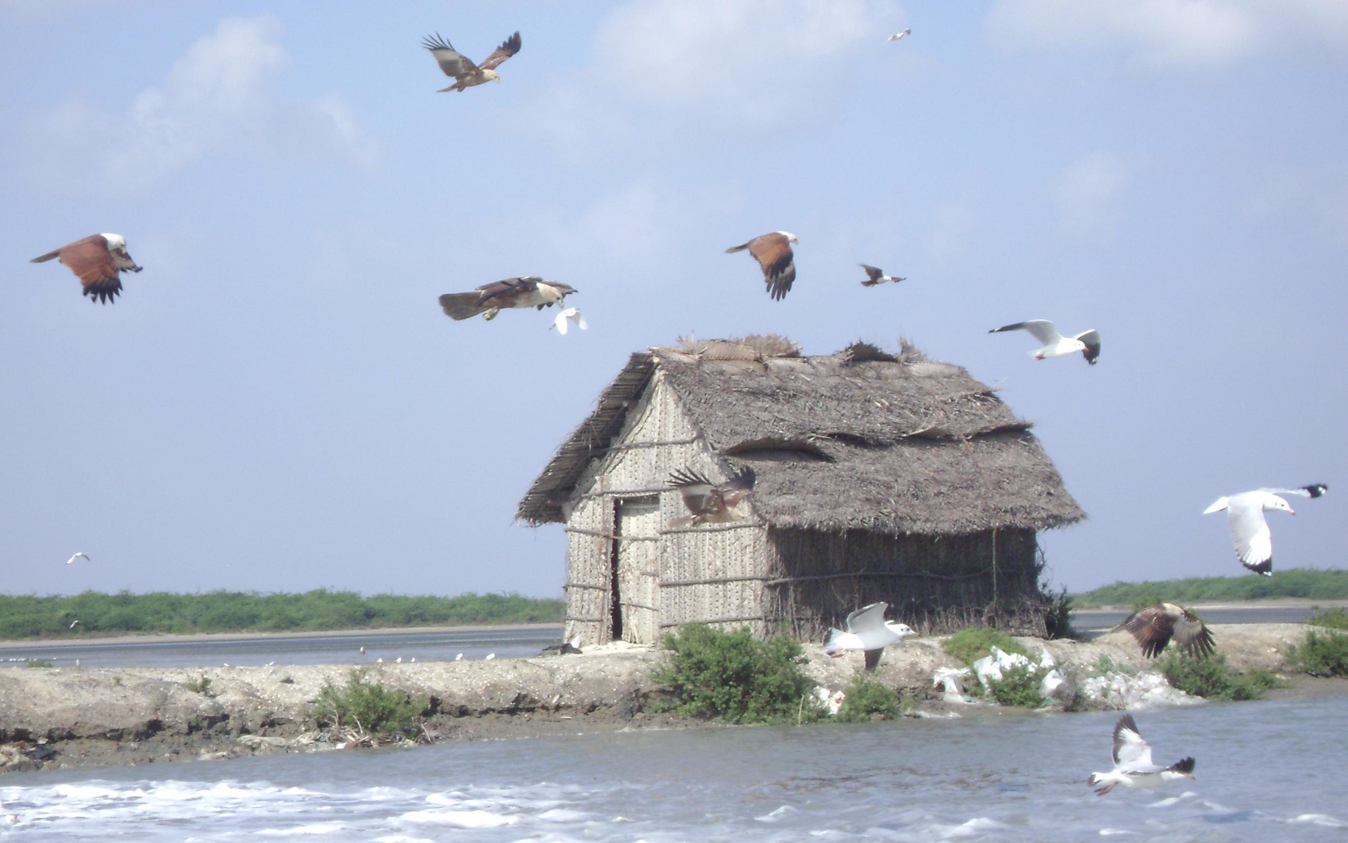 Point Calimere Wildlife and Bird Sanctuary, South-east India. Brahminy Kites and Brown-headed Gulls